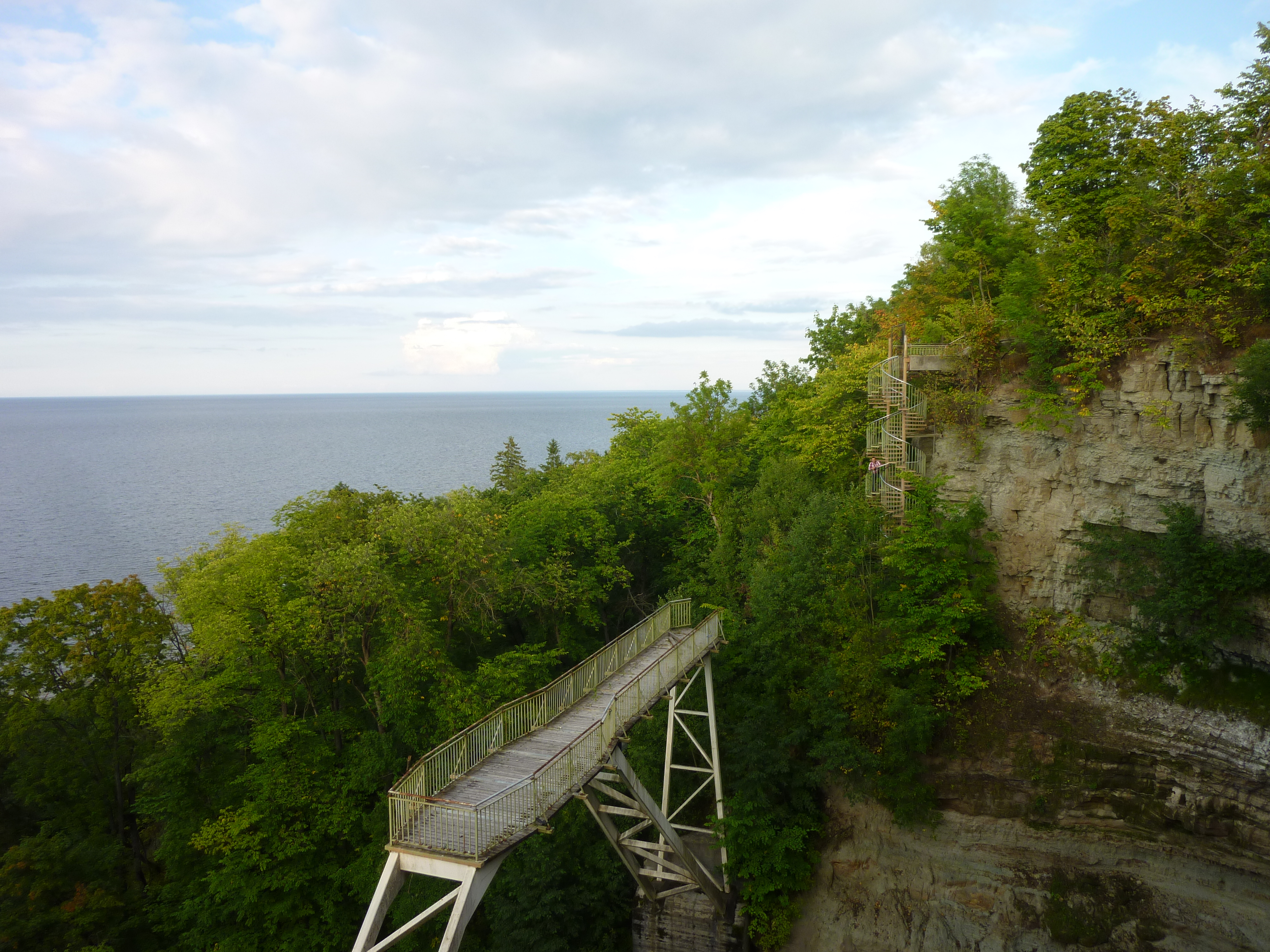 Valaste Juga Platform Broken